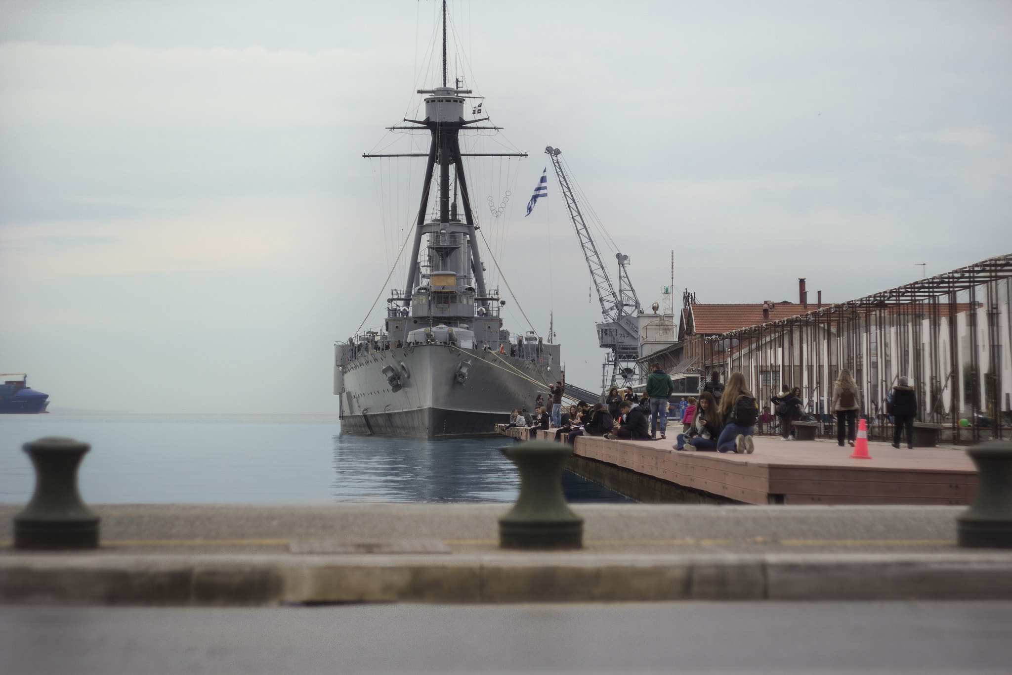 500px provided description: A sailing museum stopped by our city Thessaloniki. Its making crazy money in difficult times, i guess people can always spare some euros for a unique experience. [#greece ,#thessaloniki ,#battle ship ,#canon 60D ,#50mm canon ,#averof ,#crespo greek ,#60d canon 50mm]